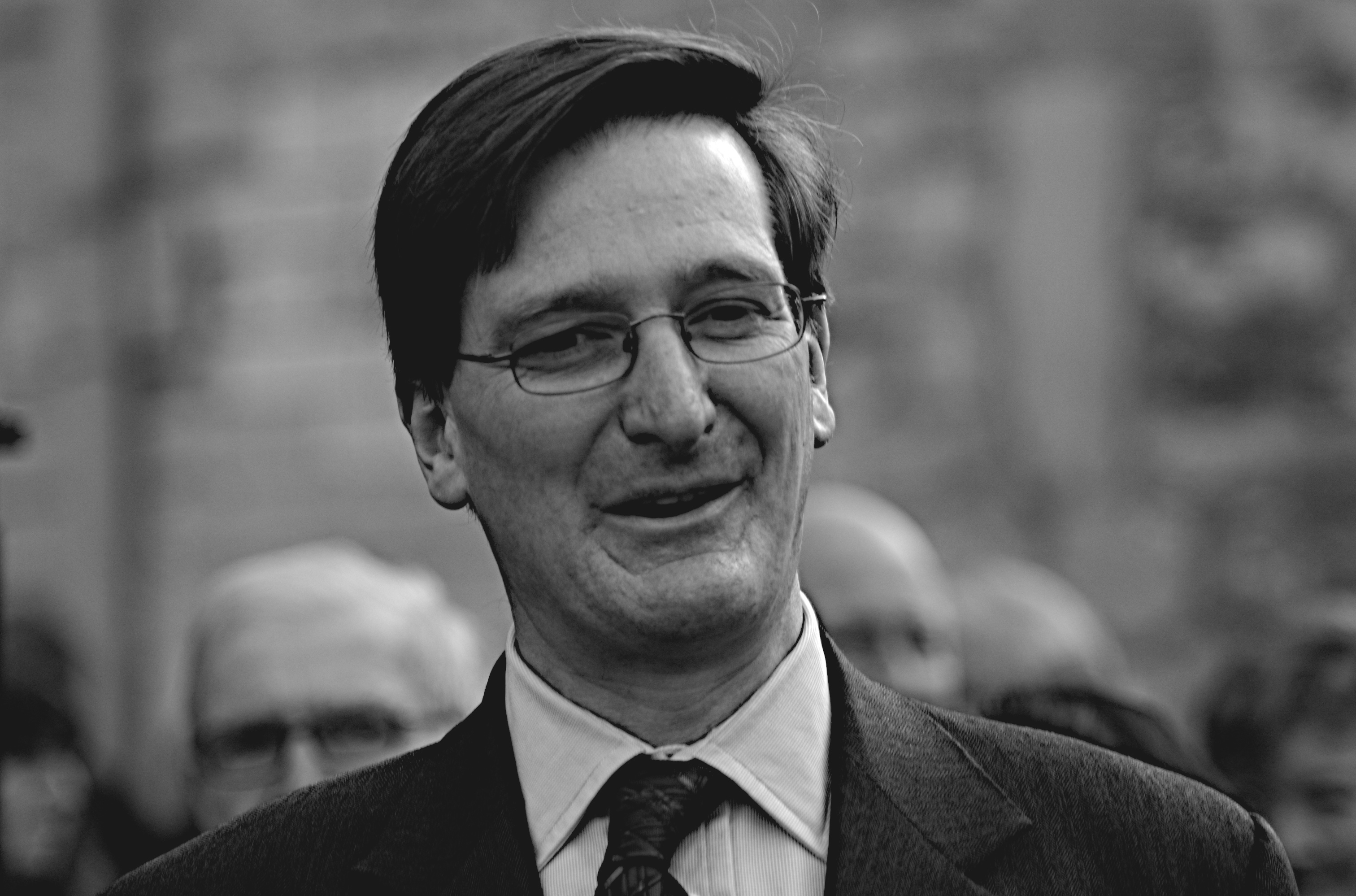 Dominic Grieve, British Conservative politician.